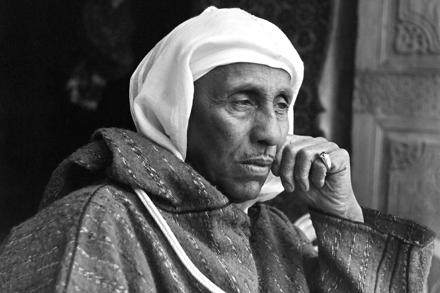 Thami El Glaoui, the Pasha of Marrakesh and Lord of the Atlas.